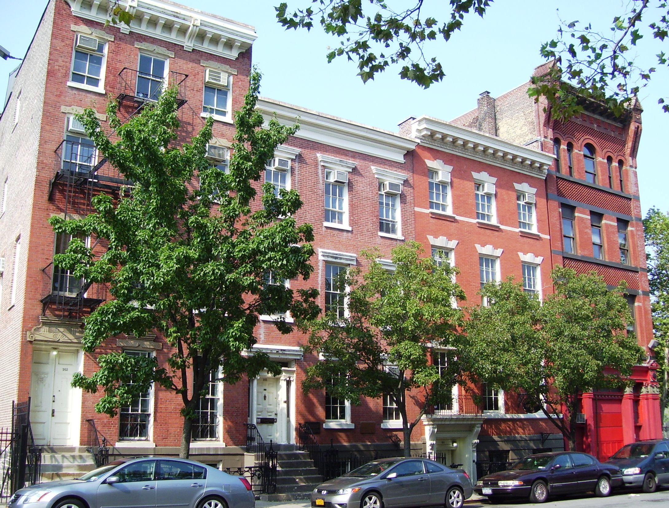 263-269 Henry Street between Montgomery and Grand Streets in the Lower East Side of Manhattan, New York City includes Henry Street Settlement's buildings at 263-267 and the former FDNY fire house at 269. The buildings are all original, and give a sense of what a block of Manhattan would look like c.1820.